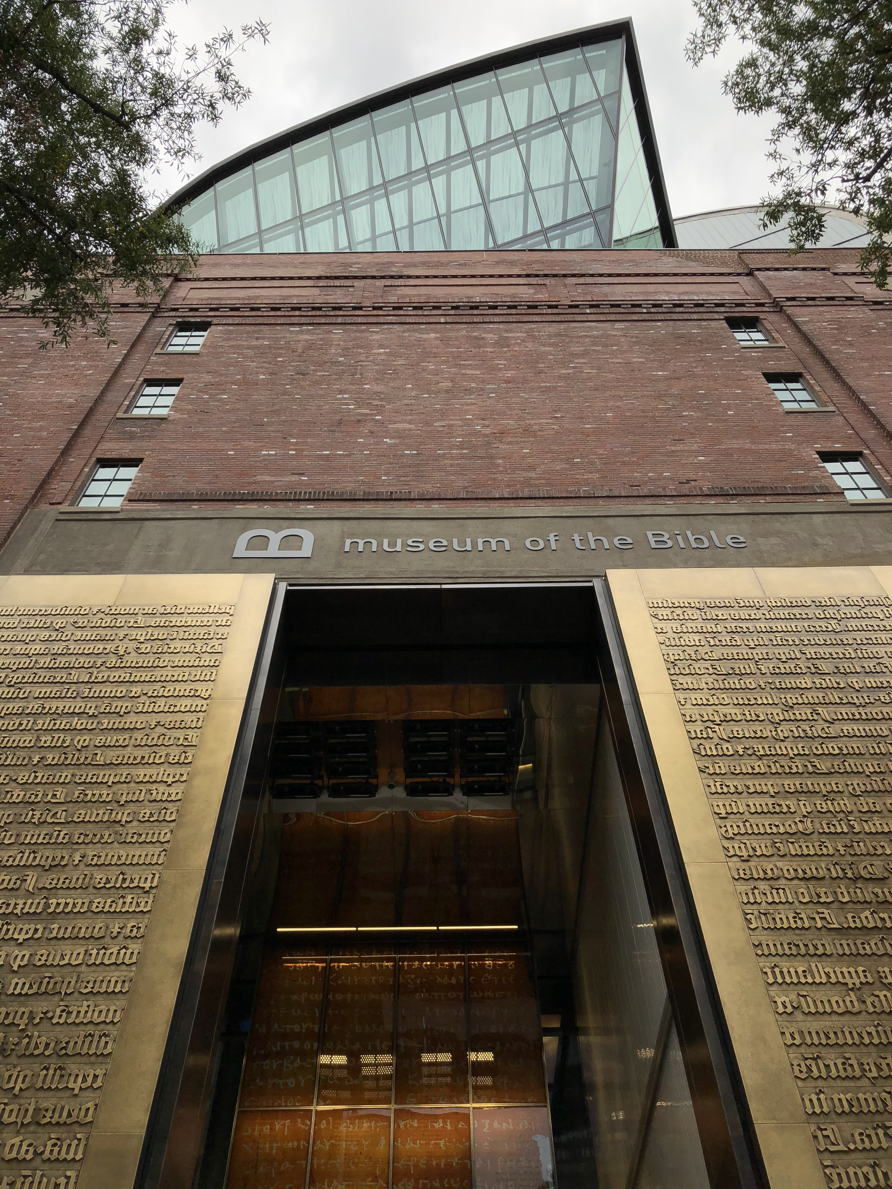 Museum of the Bible, November 4, 2017. Washington, D.C. Exterior front, looking up